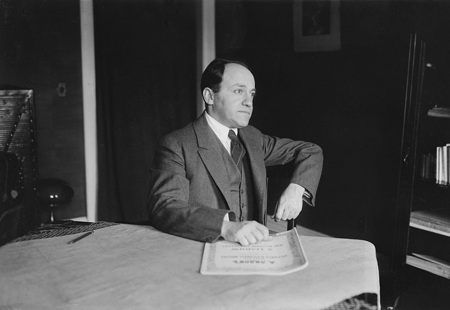 Ernest Bloch in 1917 at a table